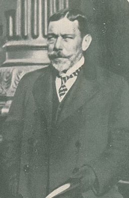 D. António Mendes Bello, Patriarch of Lisbon, with Bernardo Homem Machado de Figueiredo de Abreu Castelo Branco, 2nd Count of Caria, 1912.